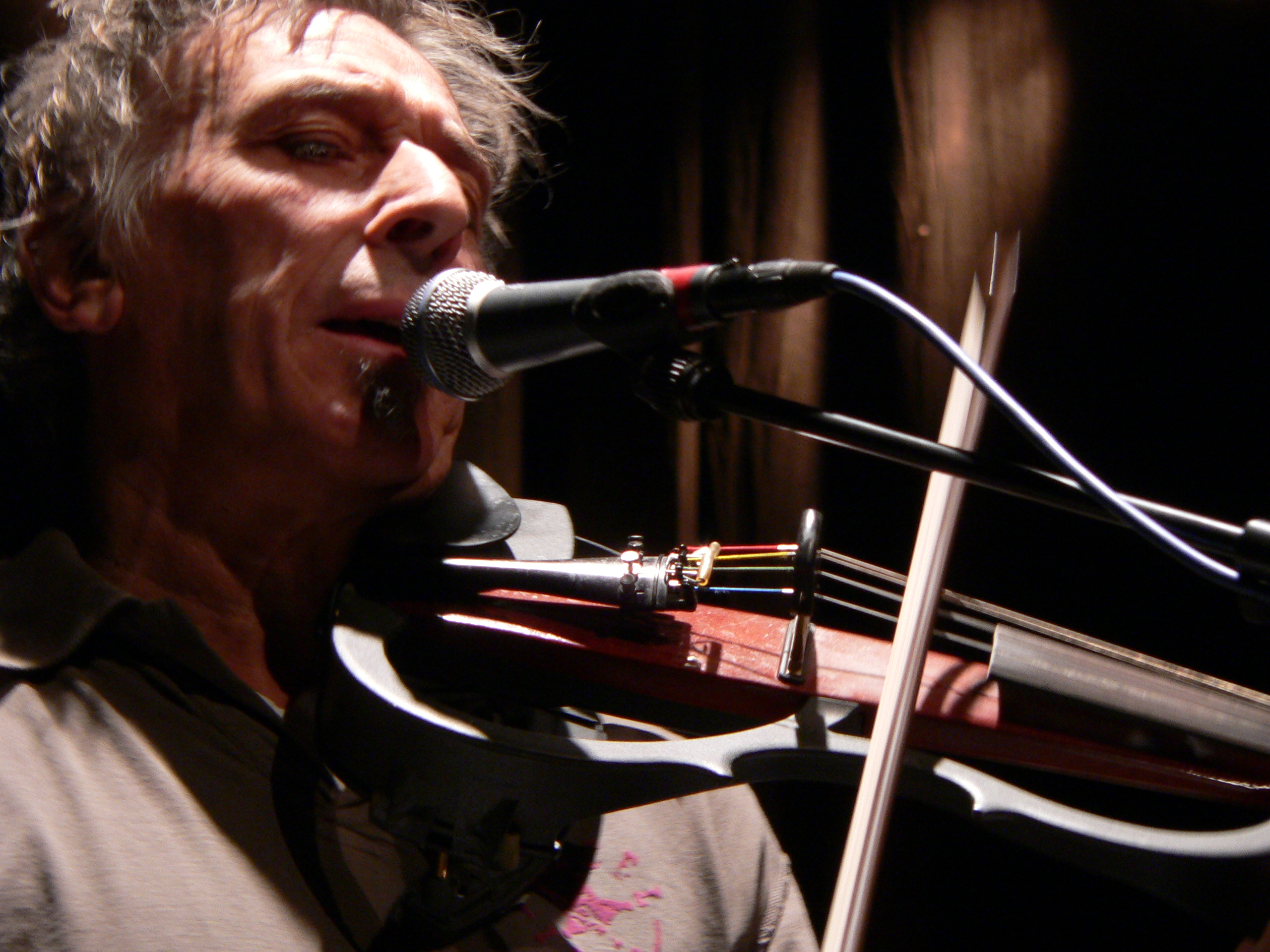 Photo of John Cale playing the viola at a concert in De Warande (club), Turnhout, Belgium (3 February 2006).